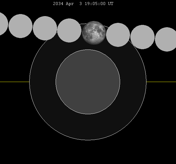 April 2034 lunar eclipse chart of moon's total lunar eclipse path through the earth's shadow. thumb